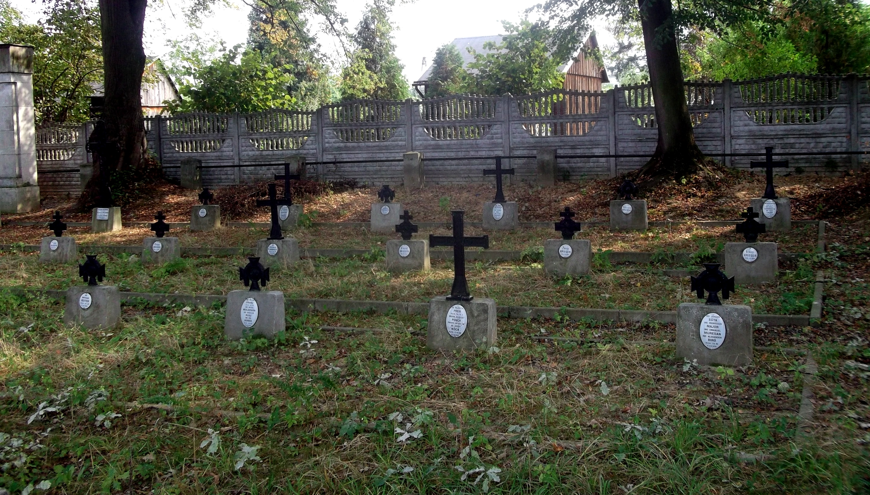 World War I Cemetery nr 160 in Tuchów